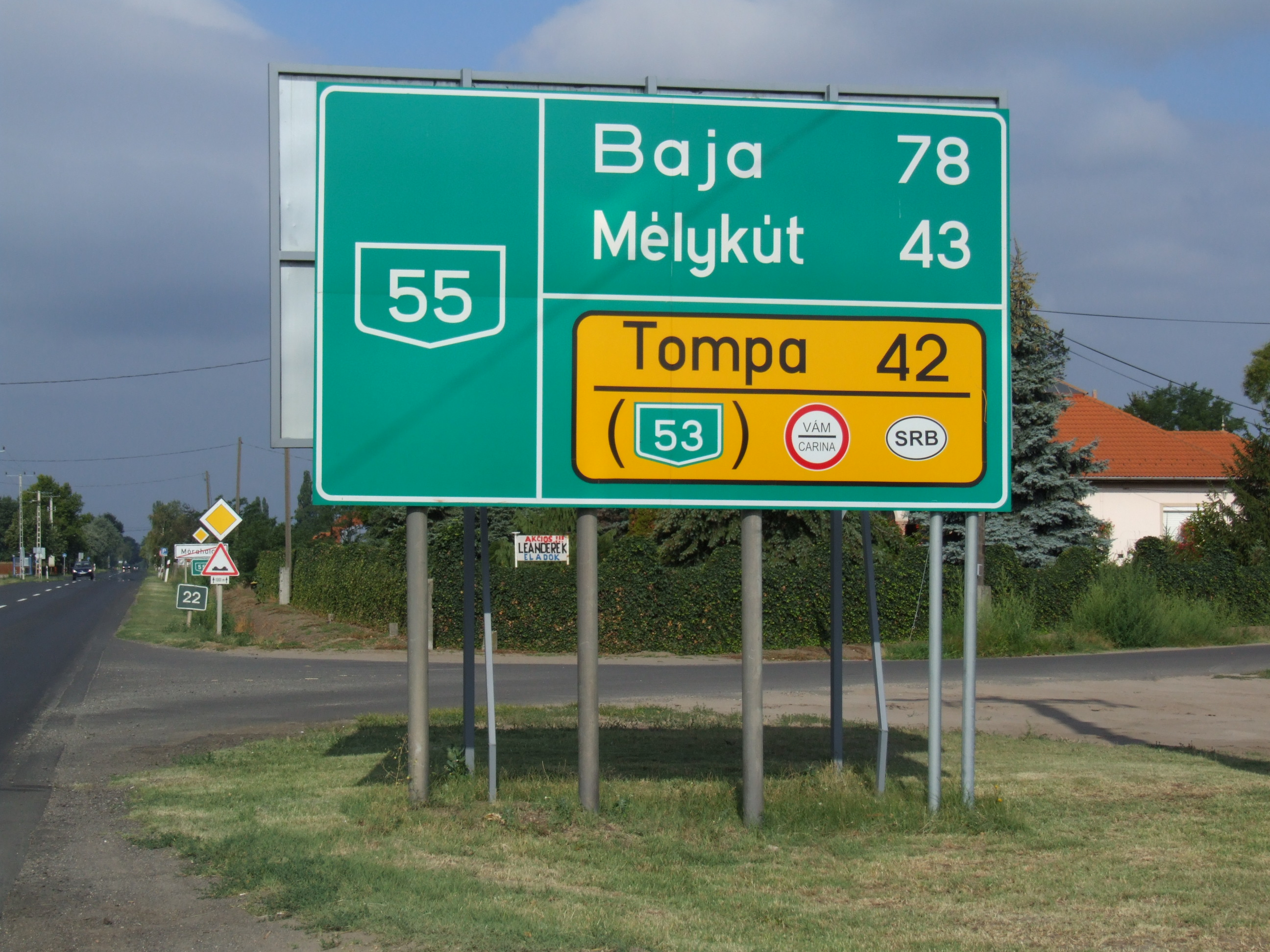 Route 55 in Hungary - distance sign in Mórahalom